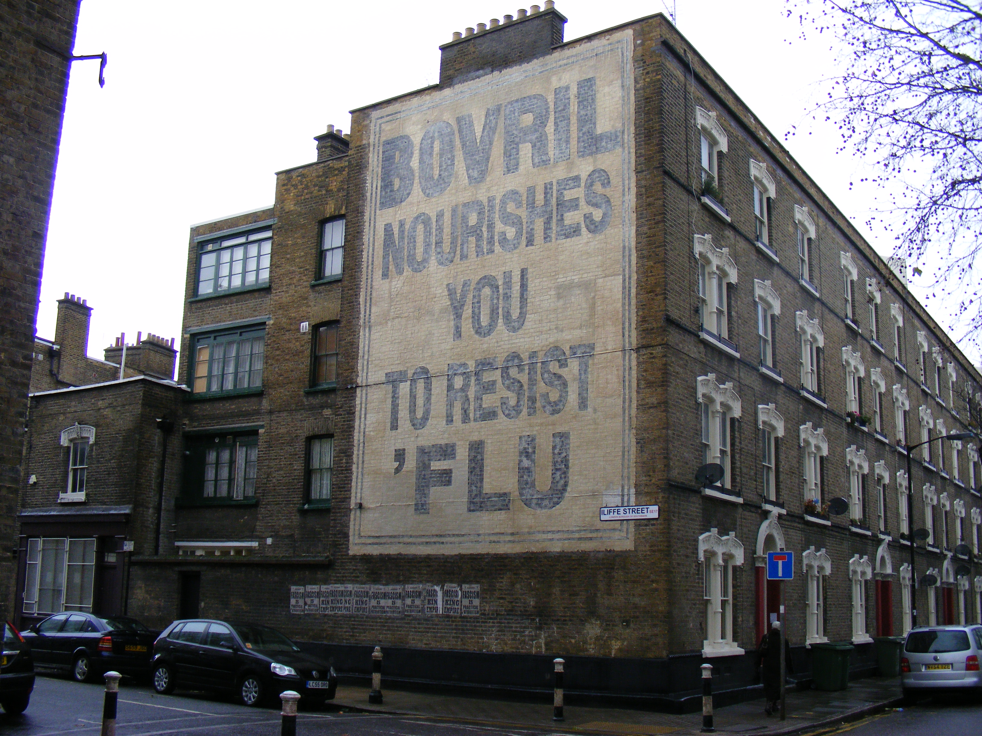 Bovril Nourishes you to resist Flu Advert on side of Pullens Building in Crampton Street I assume this hoarding was added for a film or TV shoot as they it was gone a few days after I took this picture. (It appears that this was for The King's Speech, as mentioned in that article).